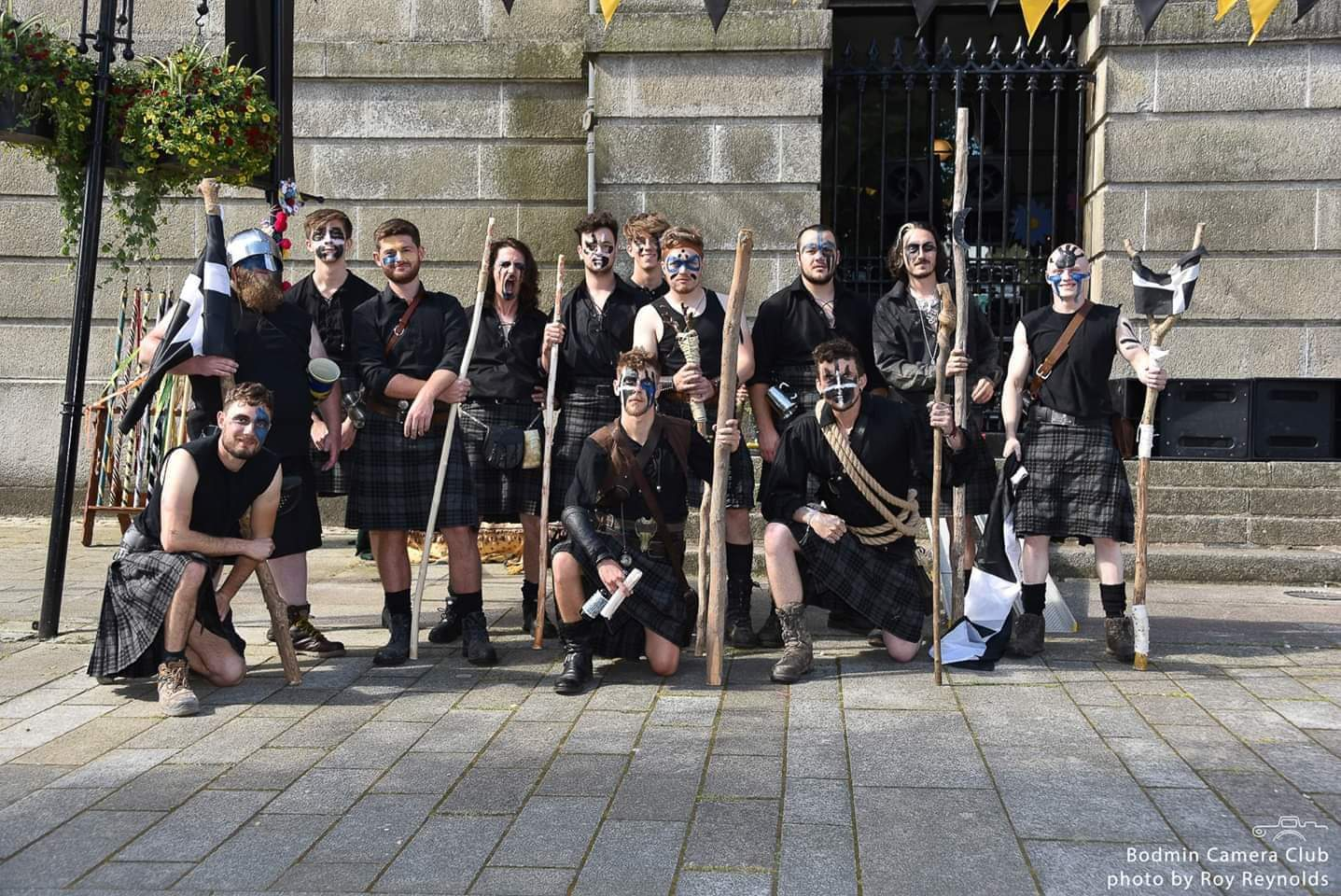 Picture of Helliers in front of Shire Hall